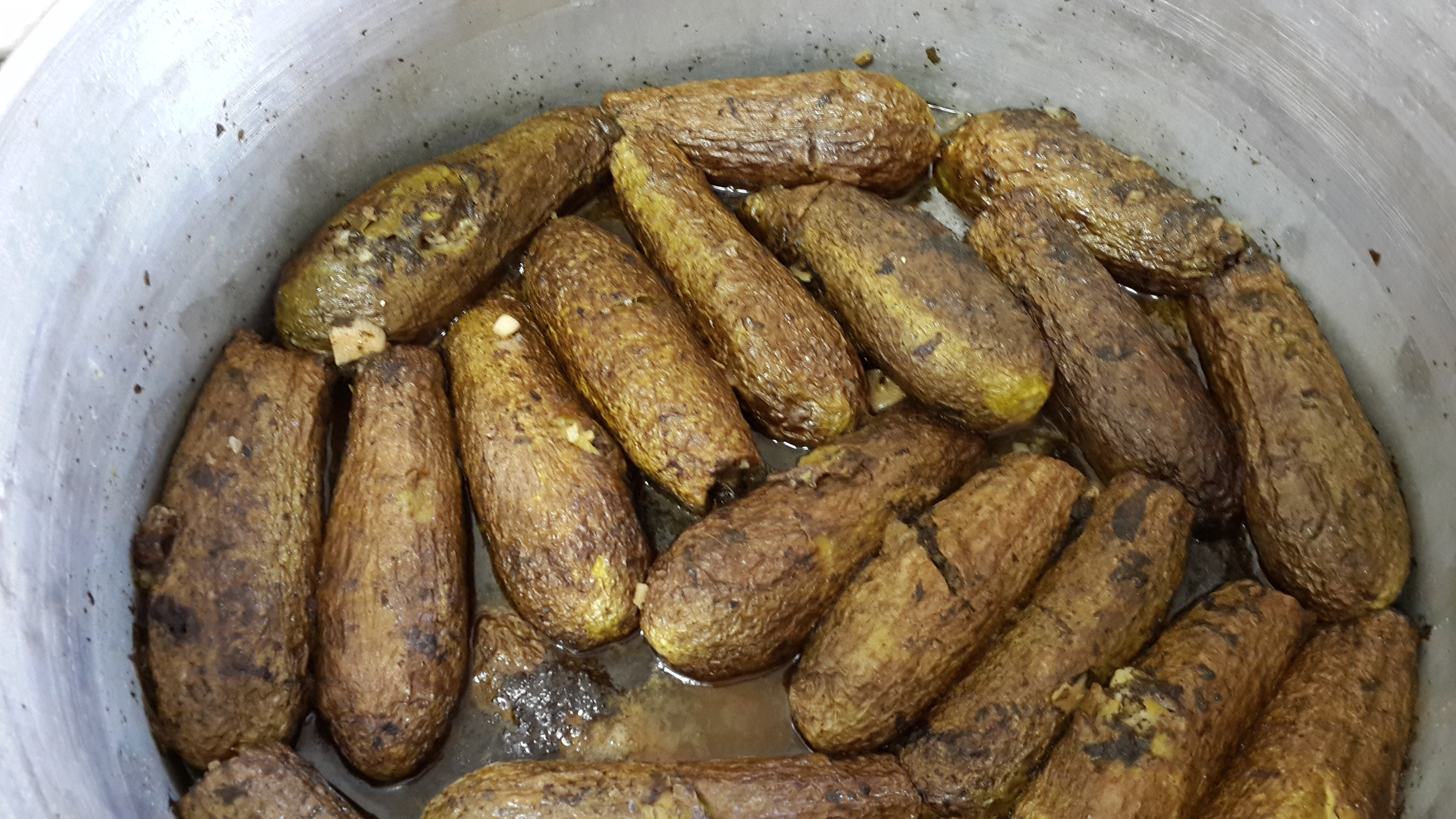 Kusa Mahshi (stuffed zucchini) a la Toledano, as prepared by the Toledano family from Tiberias, Israel.